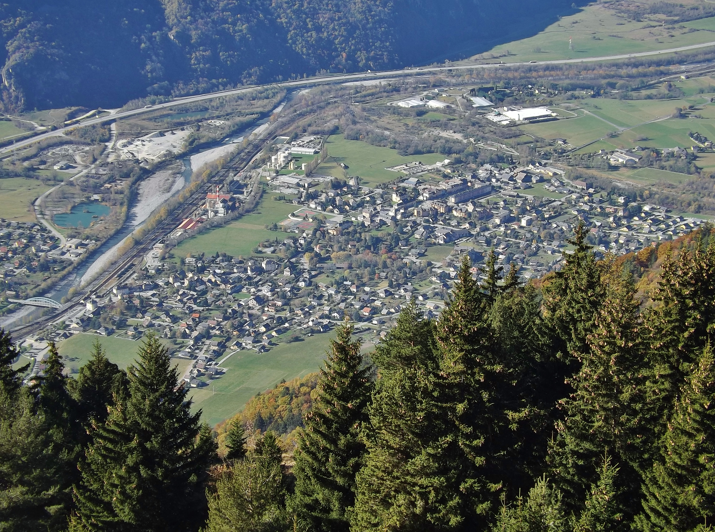 Aerian sight, from the heights of Montpascal, on the French communes of Saint-Avre and La Chambre, along the river Arc in the middle Maurienne valley, in Savoie.